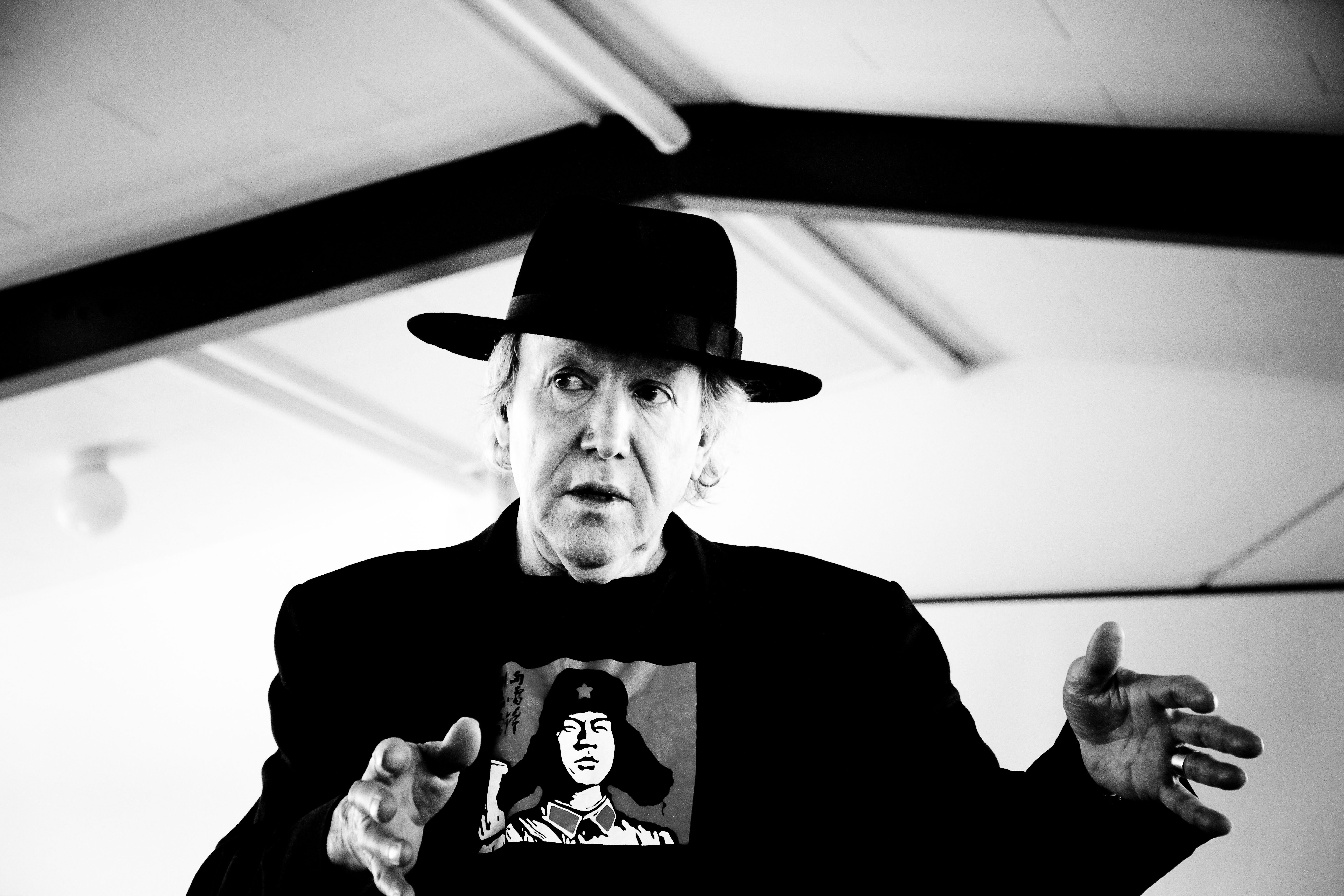 David McPhail while rehearsing a play in 2011